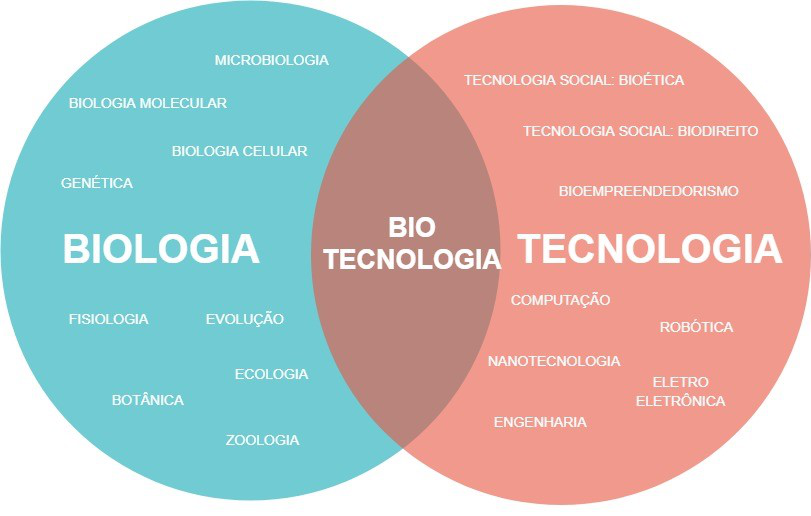 Biotechnolgy phase 3: In search of new technologies to scape molecular biology dominance.